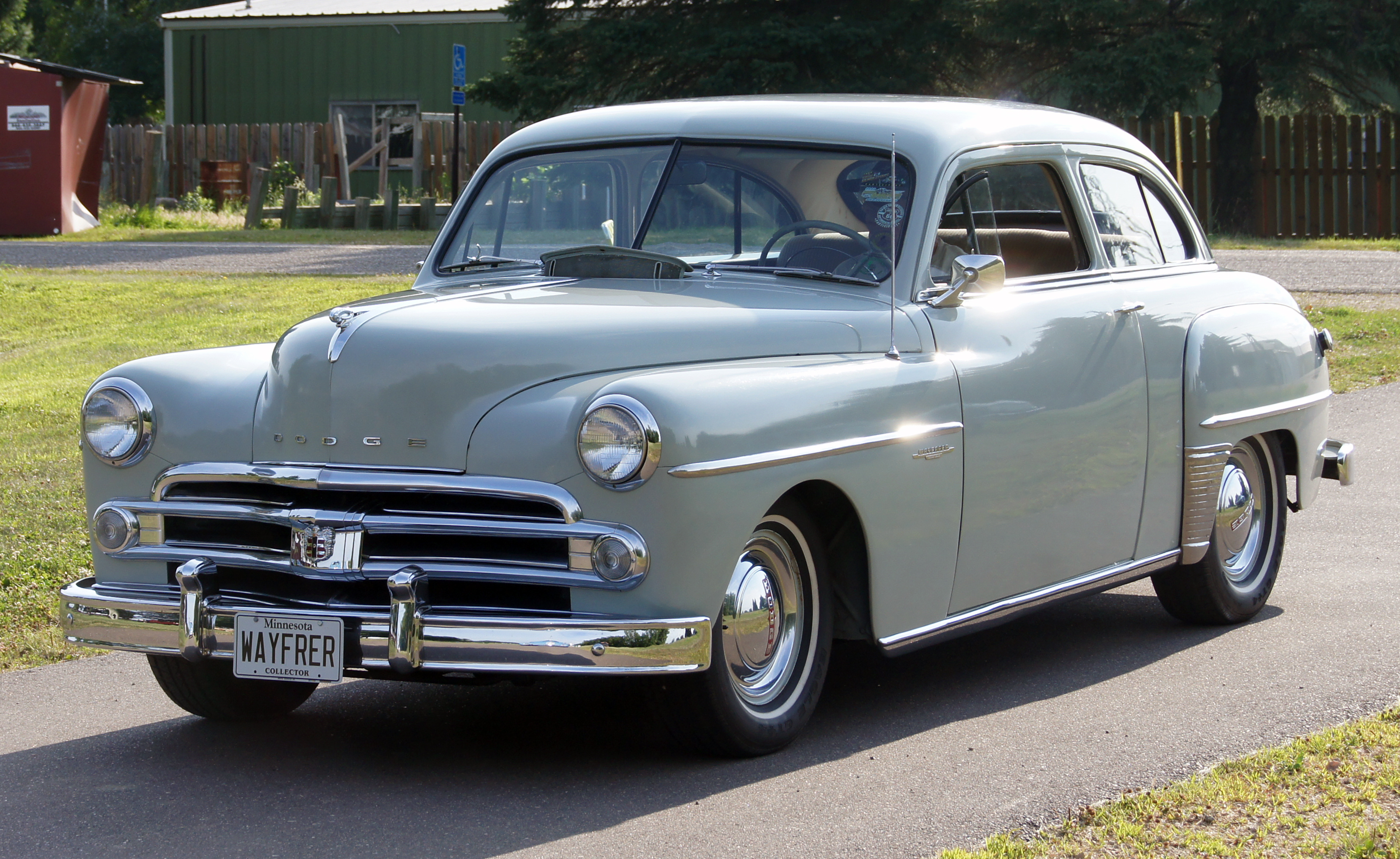 1950 Dodge Wayfarer two-door sedan, sadly lowered and with customized wheels. At the 1st Combined Convention: 28th Annual National DeSoto Club Convention & 44th Annual Walter P.Chrysler Club Convention, July 17 - 21, 2013 at Lake Elmo, Minnesota.